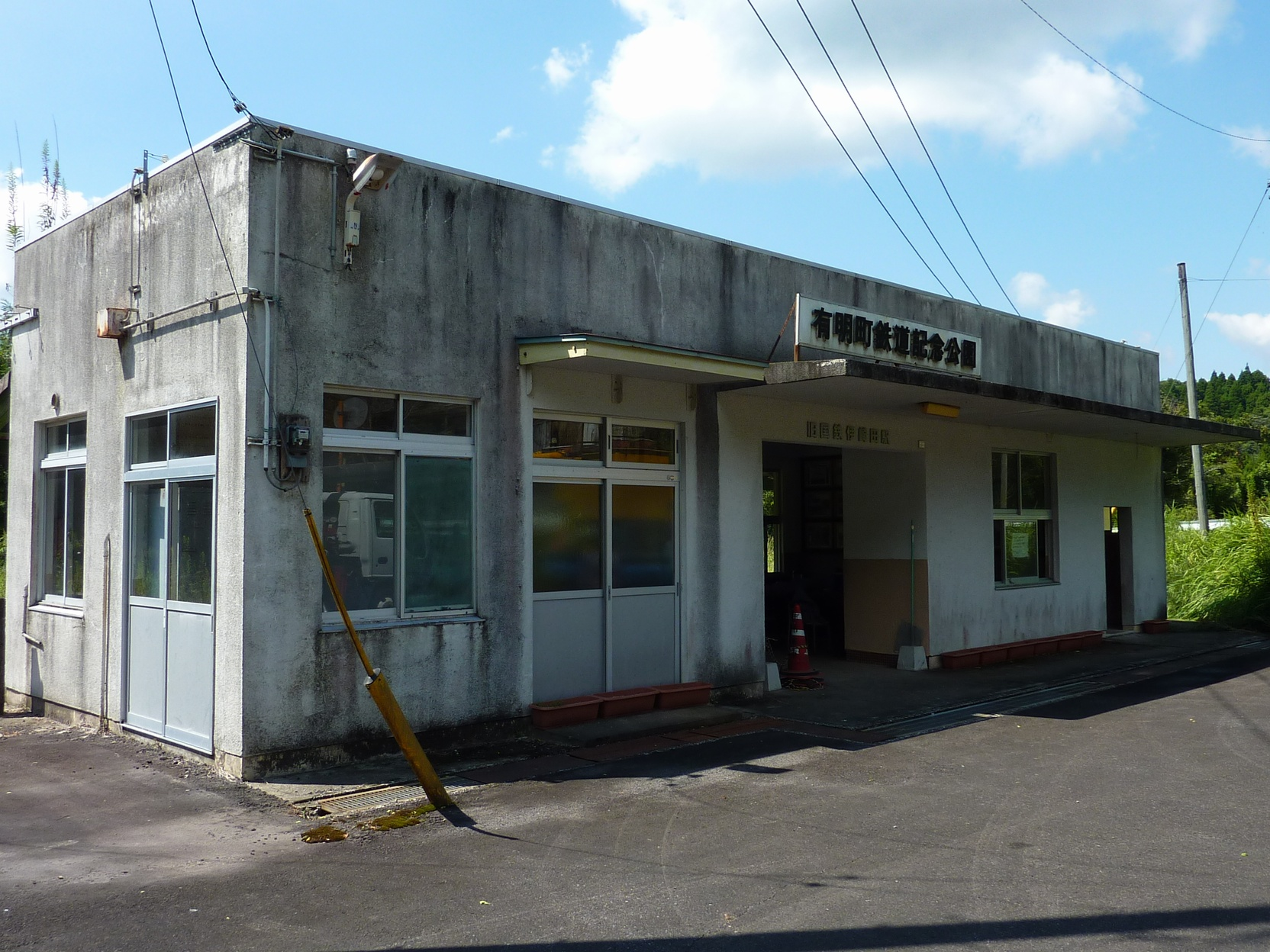 Former Isakida Station (JNR Shibushi Line, 1925-1987) This station was located in Ariake, Shibushi City, Kagoshima, Japan.